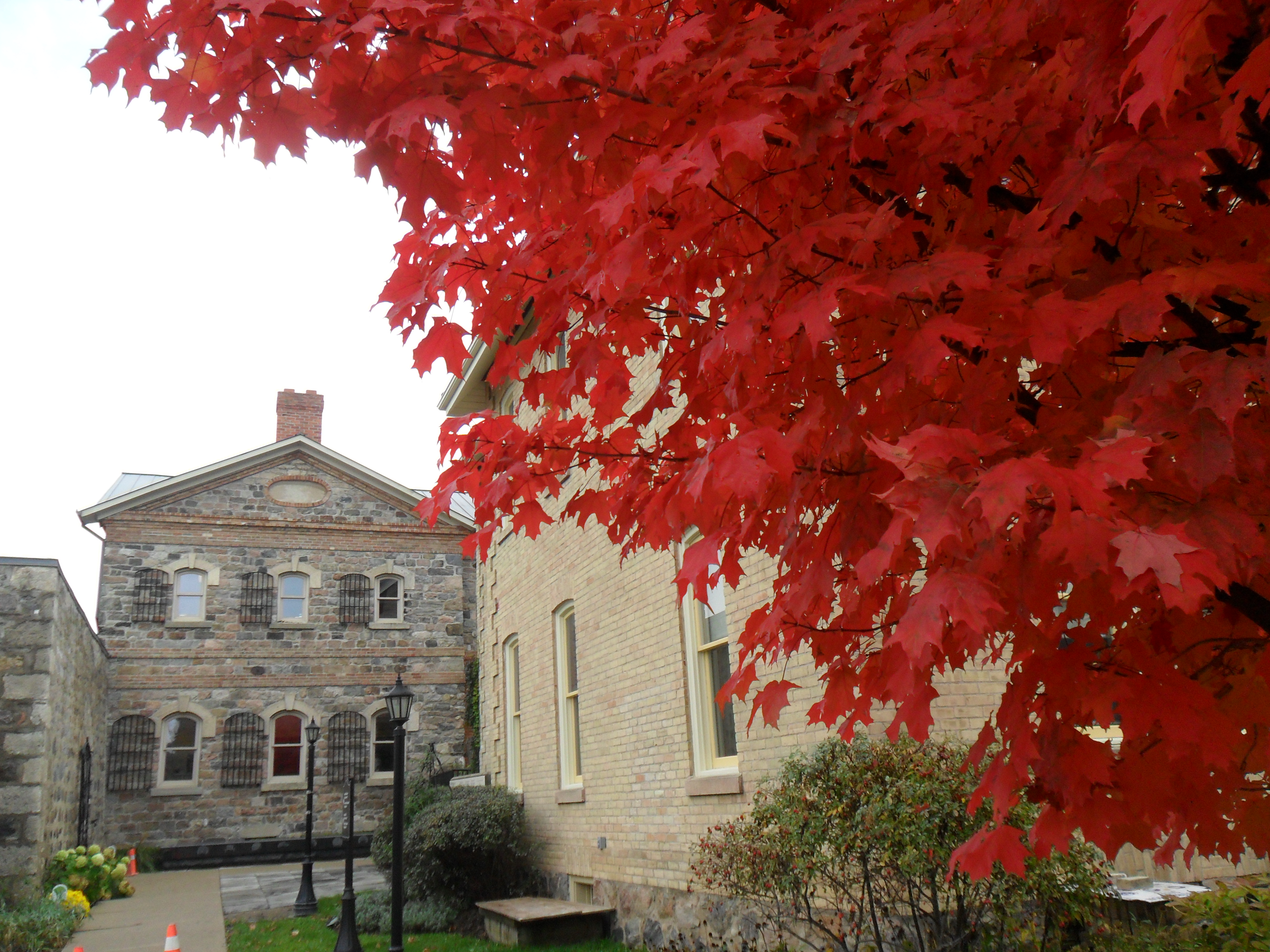 kitchener old gaol and house